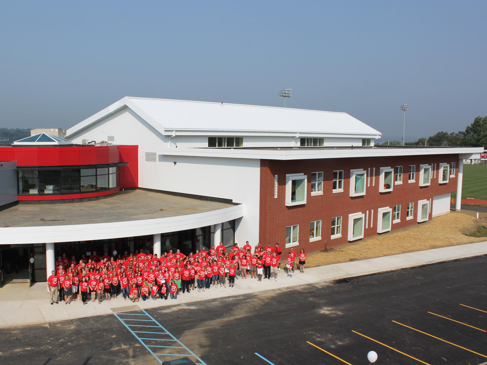 Ribbon cutting ceremony for the Elementary School.